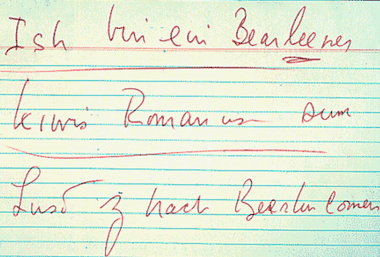 President Kennedy's Speech Card, 26 June 1963 Berlin, Federal Republic of Germany (West Berlin) President Kennedy used this handwritten note card while delivering his speech to the people of Berlin on June 26, 1963 at Rudolph Wilde Platz. On it he phonetically spelled German phrases from his speech, including: "Ish bin ein Bearleener" "kiwis Romanus sum" "Lust z nach Bearleen comen".